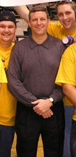 I took this photo with my personal camera of Kirk Speraw in 2004 at Stetson, after the game. The picture is credited to me.